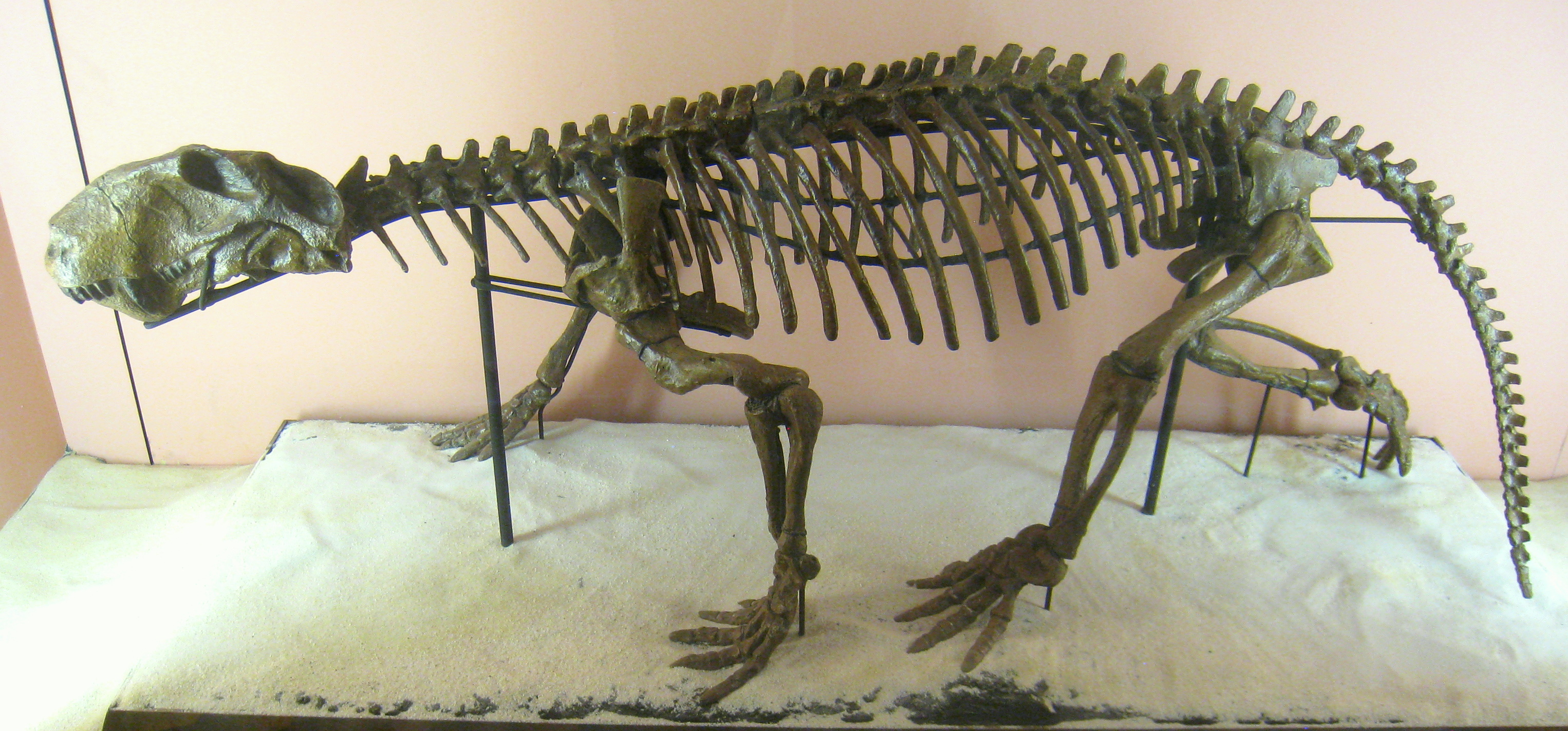 Lycaenops ornatus cast in the Buffalo Museum of Science, Buffalo, New York, USA.